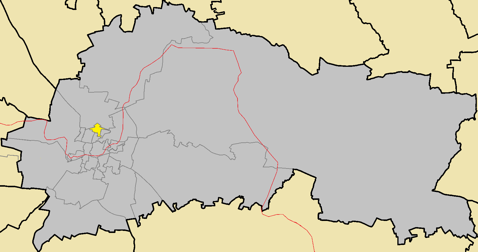 Abu Kavuk in Nicosia Municipality (de jure).